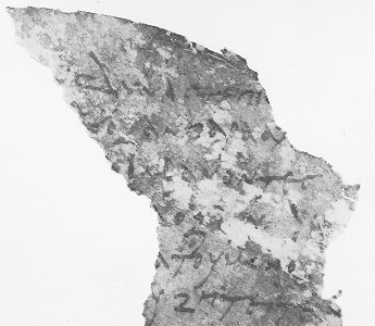 Uncial 0210 (Gregory-Aland) with fragment of John 6,1